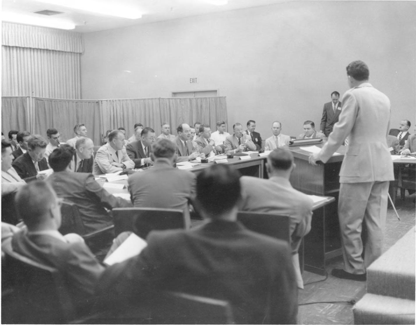 Then-Brig. Gen. Bernard Schriever address a session of the Von Neumann Committee at the Western Development Division's Arbor Vitae Complex in Inglewood, Calif. in the fall of 1955. The Committee had been reconstituted as the Atlas Scientific Advisory Committee. Facing Gen. Schriever in the front row (left to right) are George McRae of Sandia Corporation, aviation legend Charles Lindbergh, Gen. Thomas Power, commander of the Air Research and Development Command, Assistant Secretary of the Air Force Trevor Gardner, Committee Chairman John von Neumann, Col. Harold Norton, H. Guyford Stever of MIT and Clark Millikan of Caltech (U.S. Air Force photo)